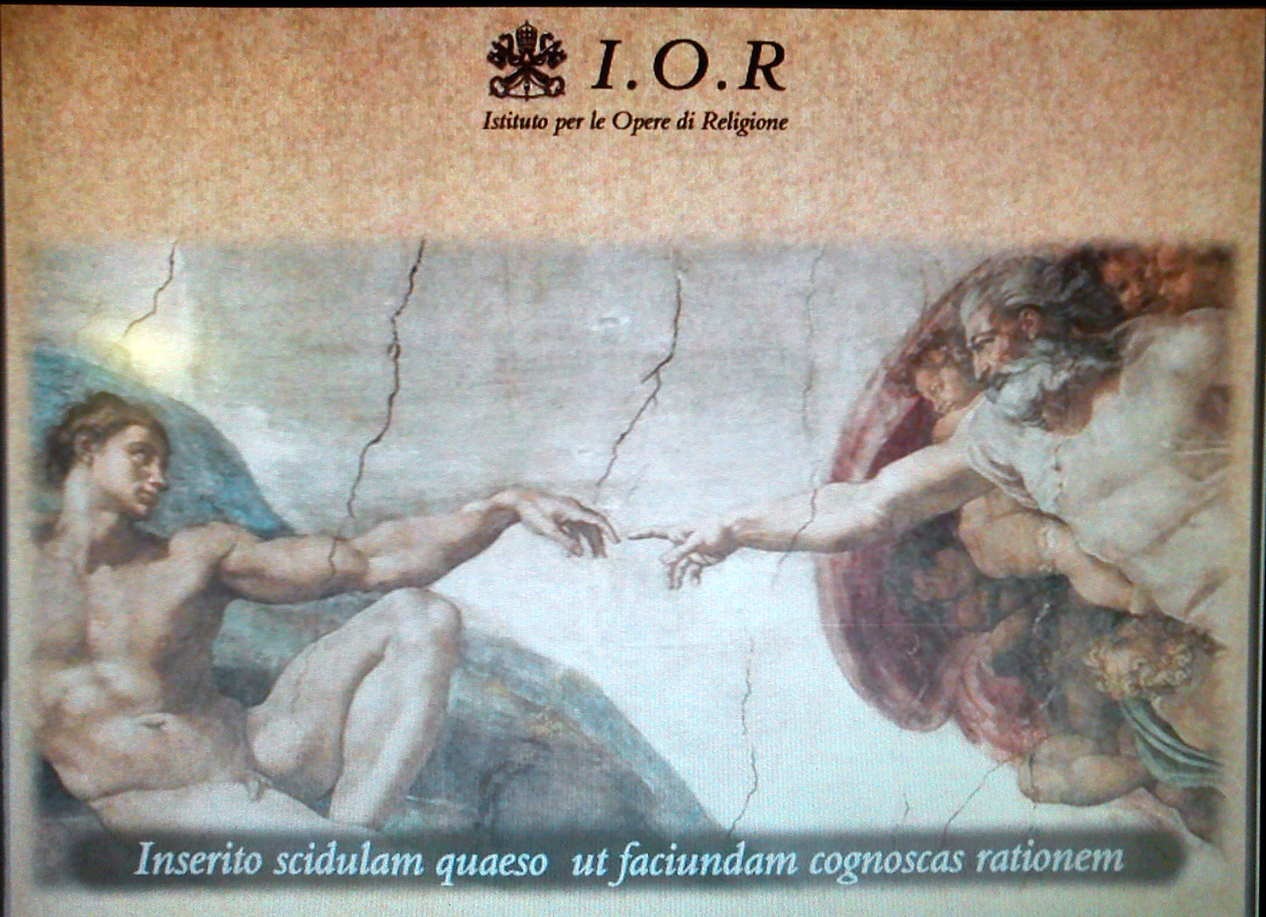 Screenshot of Vatican ATM machine in Latin language